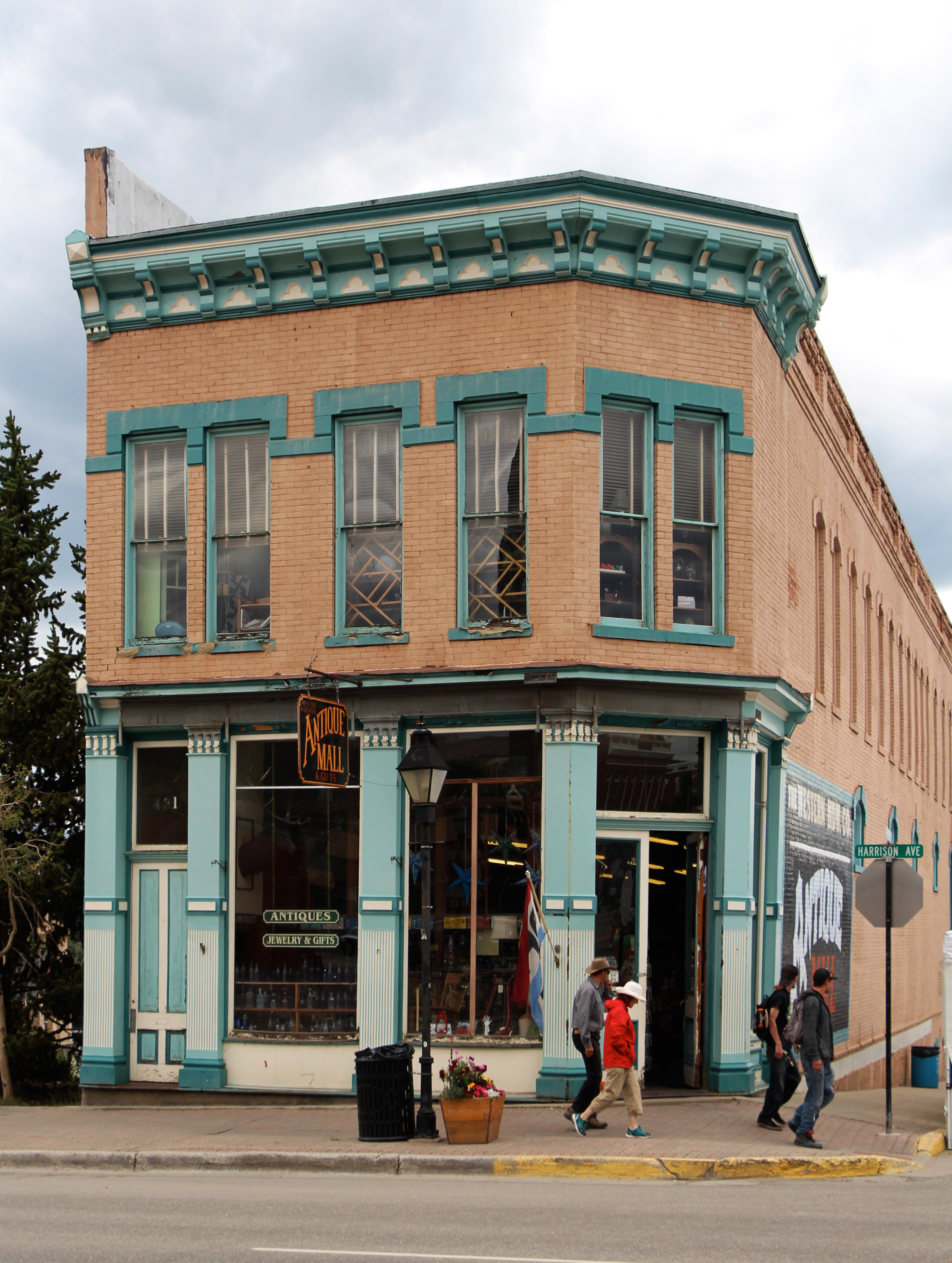 Western Hardware, S.W. Corner Harrison Ave. and 5th St., Leadville, CO.